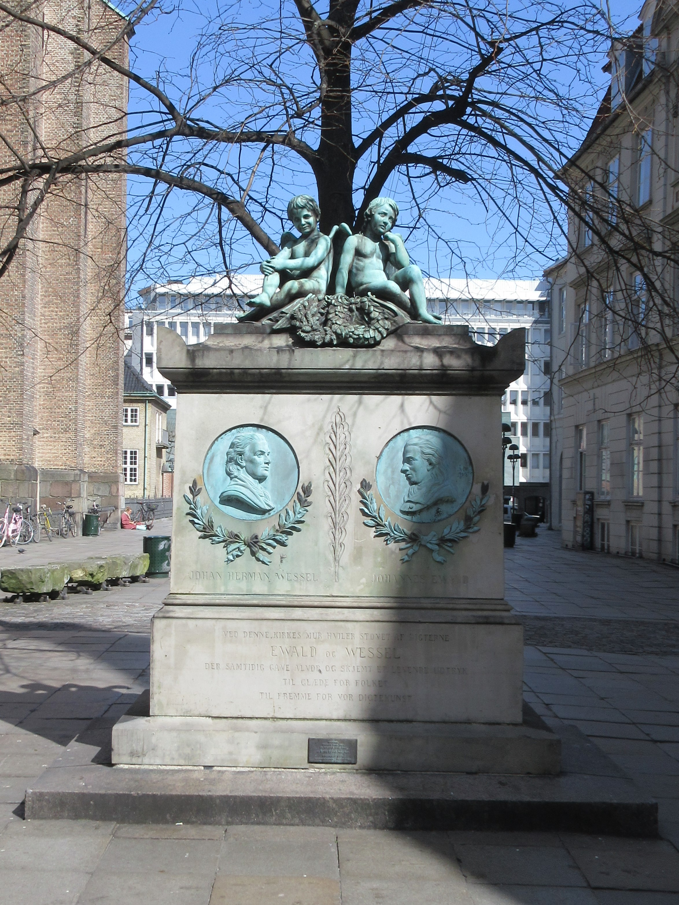 Monument to the poets Johan Herman Wessel (1742-81) and Johannes Ewald (1743-81)